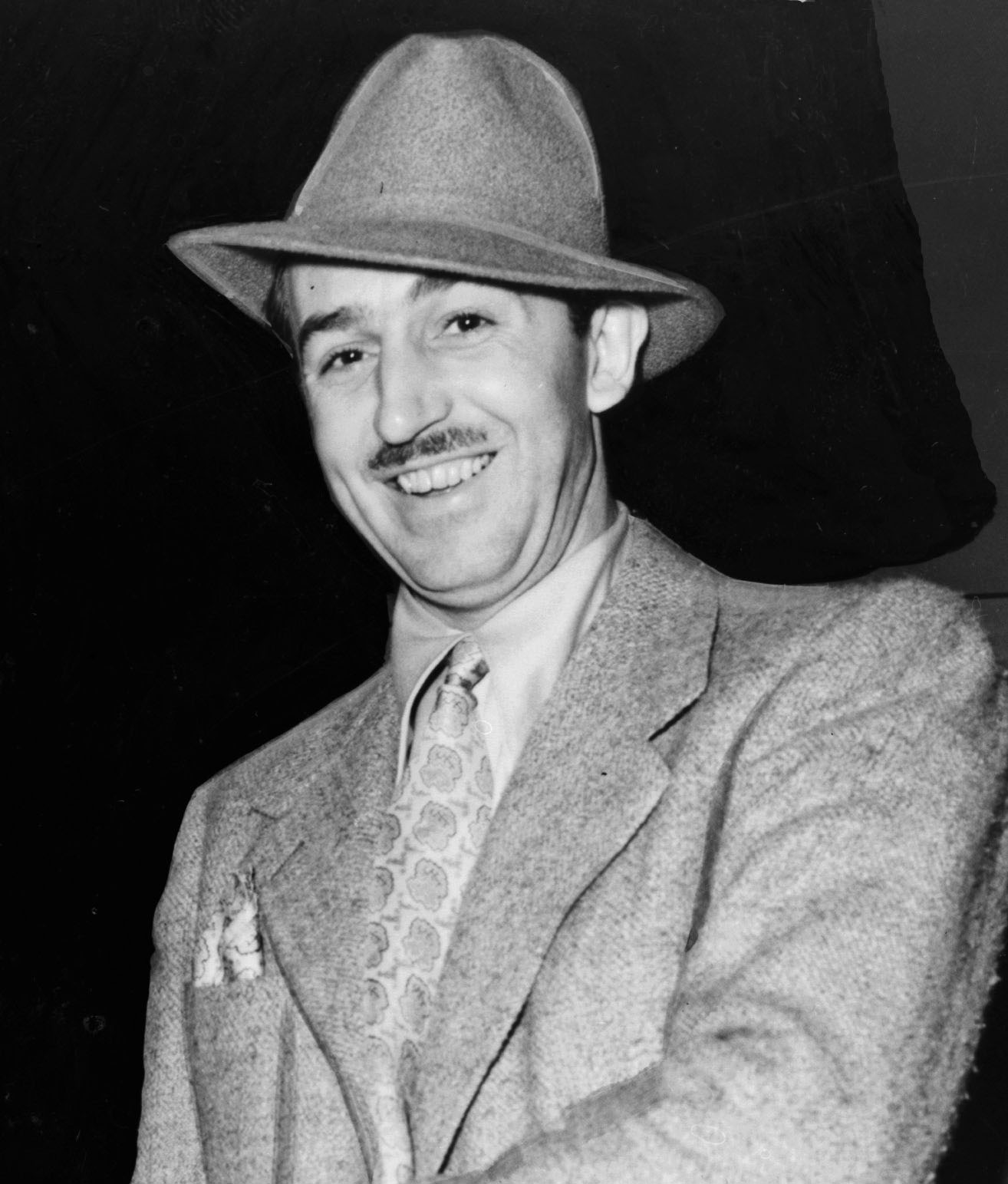 Walt Disney, cropped from photo of him shaking hands with Robert Taylor / World-Telegram photo by Alan Fisher.